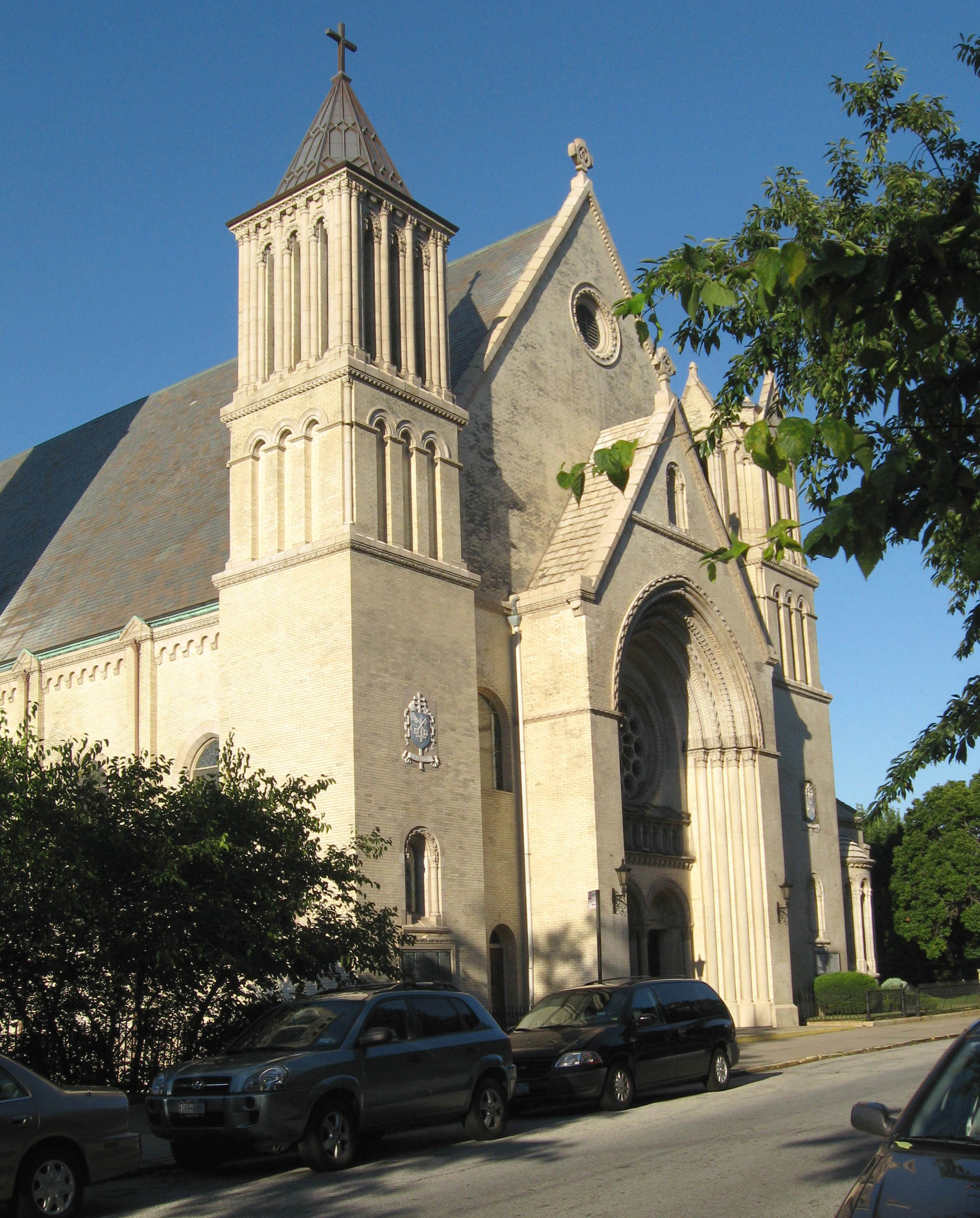 Looking northeast at St Peters Roman Catholic Church on St Marks Street, Staten Island on a sunny late afternoon